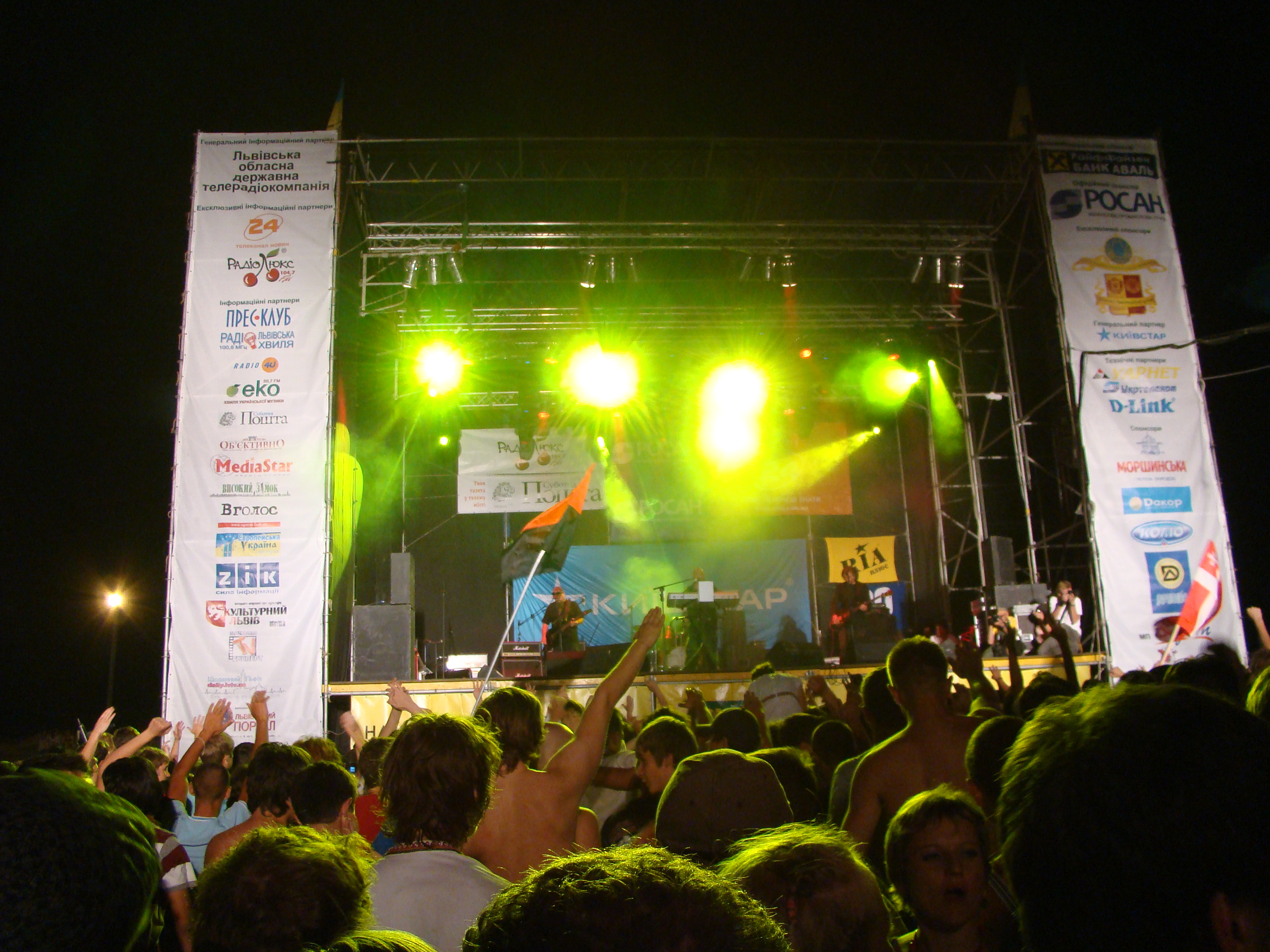 Performance of Ukrainian band "Komu Vnyz" at the "Pidkamiń" festival (2009)